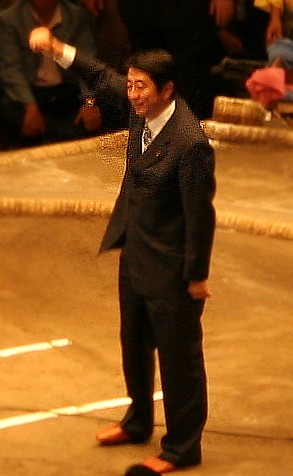 Shinzō Abe, Prime Minister designate of Japan, during the victory ceremony at the September Sumo tournament. Tokyo, September 24, 2006.